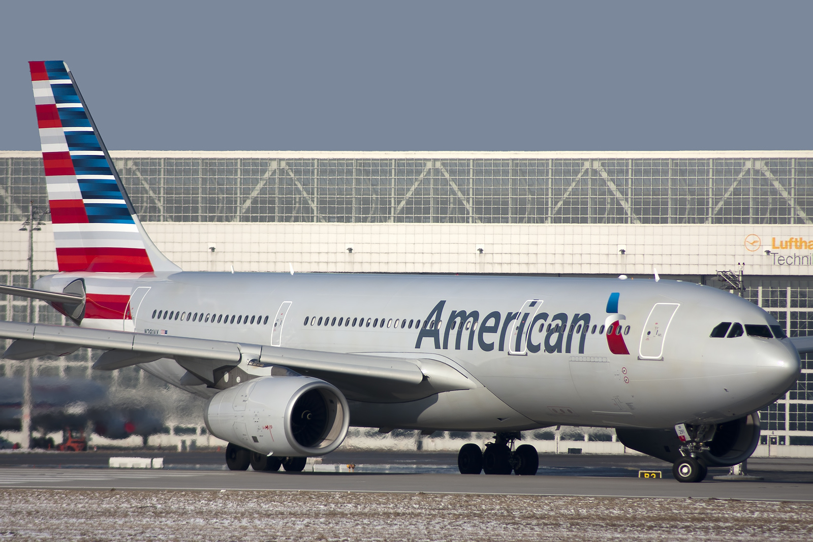 Airbus A330-243 American Arlines N291AY